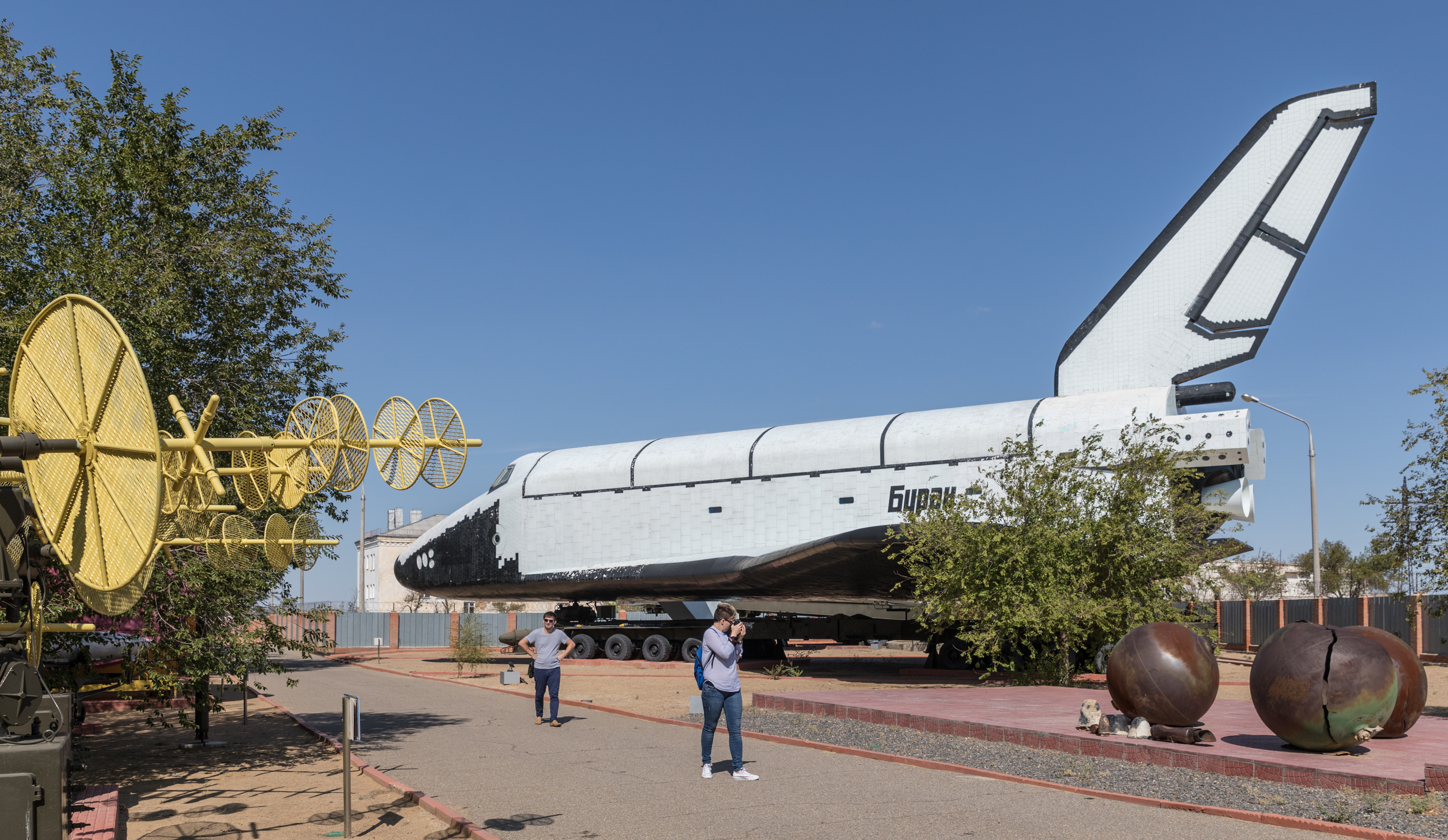 Baikonur Cosmodrome Buran Space Shuttle, maquette in the Space Museum, Baikonur. Wikipedia: Buran was the first spaceplane to be produced as part of the Soviet/Russian Buran programme. It carried the GRAU index serial number 11F35 K1 and is – depending on the source – also known as OK-1K1, Orbiter K1, OK 1.01 or Shuttle 1.01. Besides describing the first operational Soviet/Russian shuttle orbiter, "Buran" was also the designation for the whole Soviet/Russian space shuttle project. OK-1K1 completed one unmanned spaceflight in 1988, and was destroyed in 2002 when the hangar it was stored in collapsed. It remains the only Soviet reusable spacecraft to be launched into space. The Buran-class orbiters used the expendable Energia rocket, a class of super heavy-lift launch vehicle.